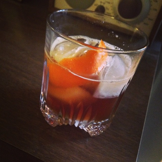 Tonight: The Toronto Cocktail 2 oz rye whiskey ¼–½ oz simple syrup ¼ oz Fernet Branca 2–3 dashes Angostura bitters